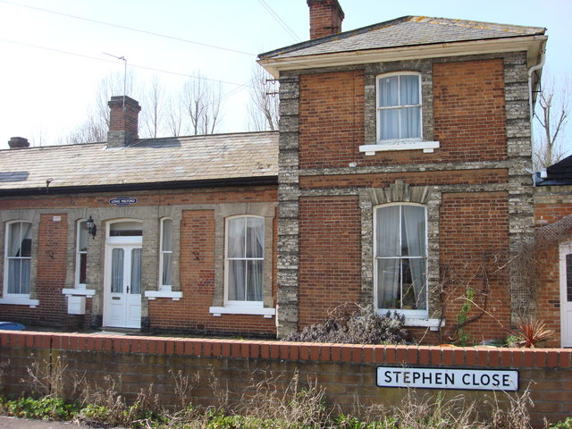 Former Station, Long Melford British Railways closed this station in 1967 when the Stour Valley Line was cut back to Sudbury. It is now a private residence in the more recent Stephen Close